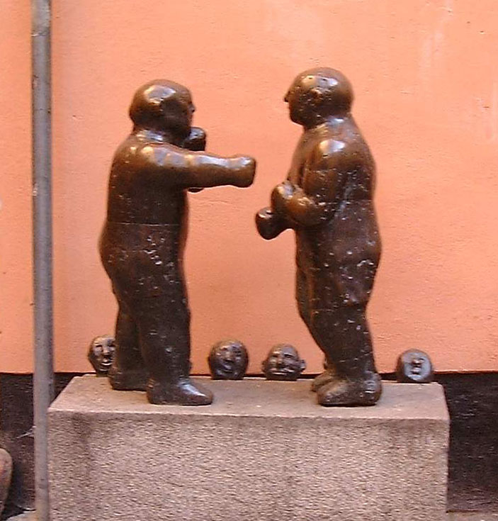 Tungviktare ("Heavyweights"), statue by Sven Lundqvist (1918—), erected 1967 at Gåstorget in Gamla stan, Stockholm, Sweden. Rotated and cropped.